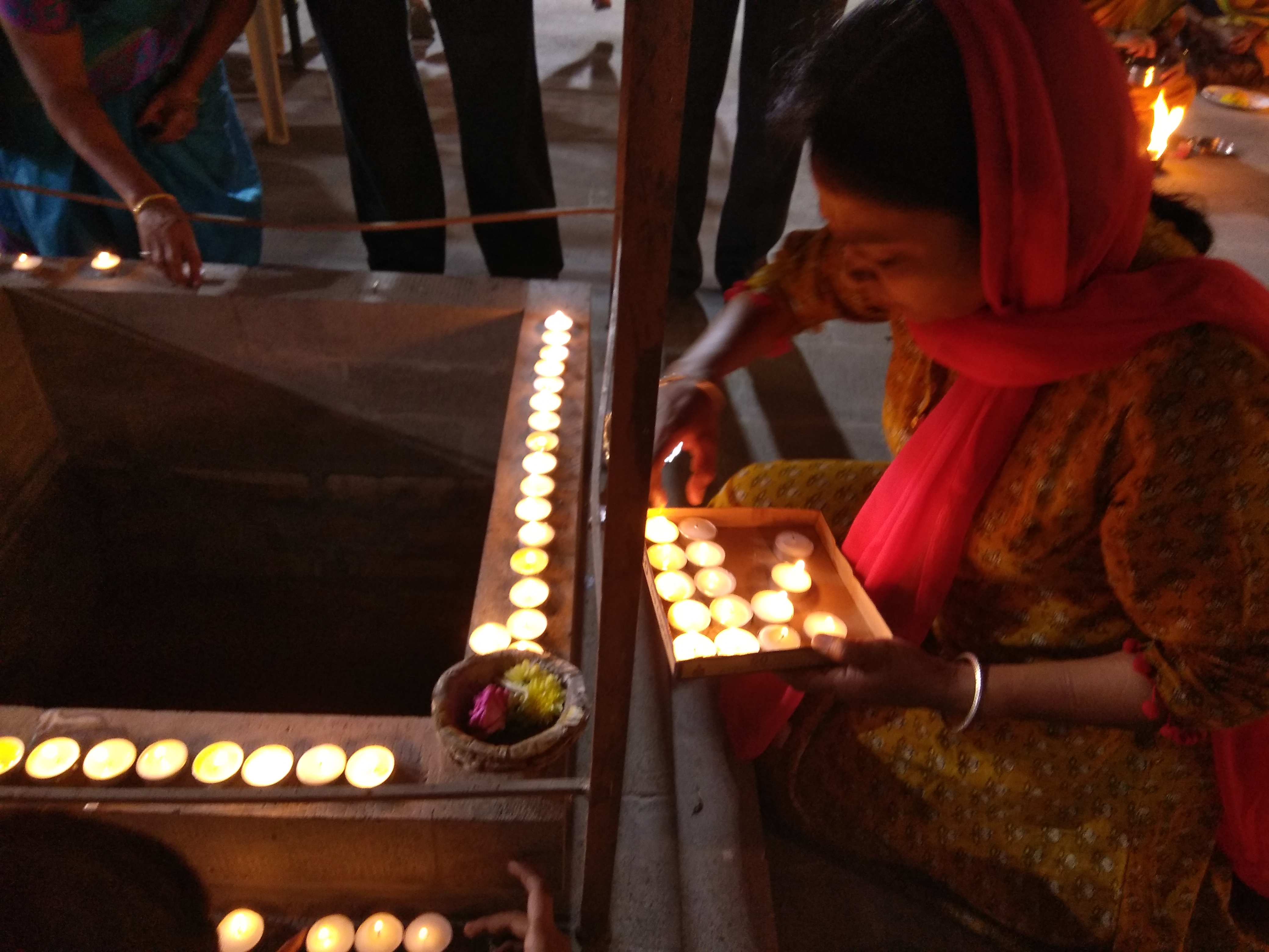 Kartik purnima celebration